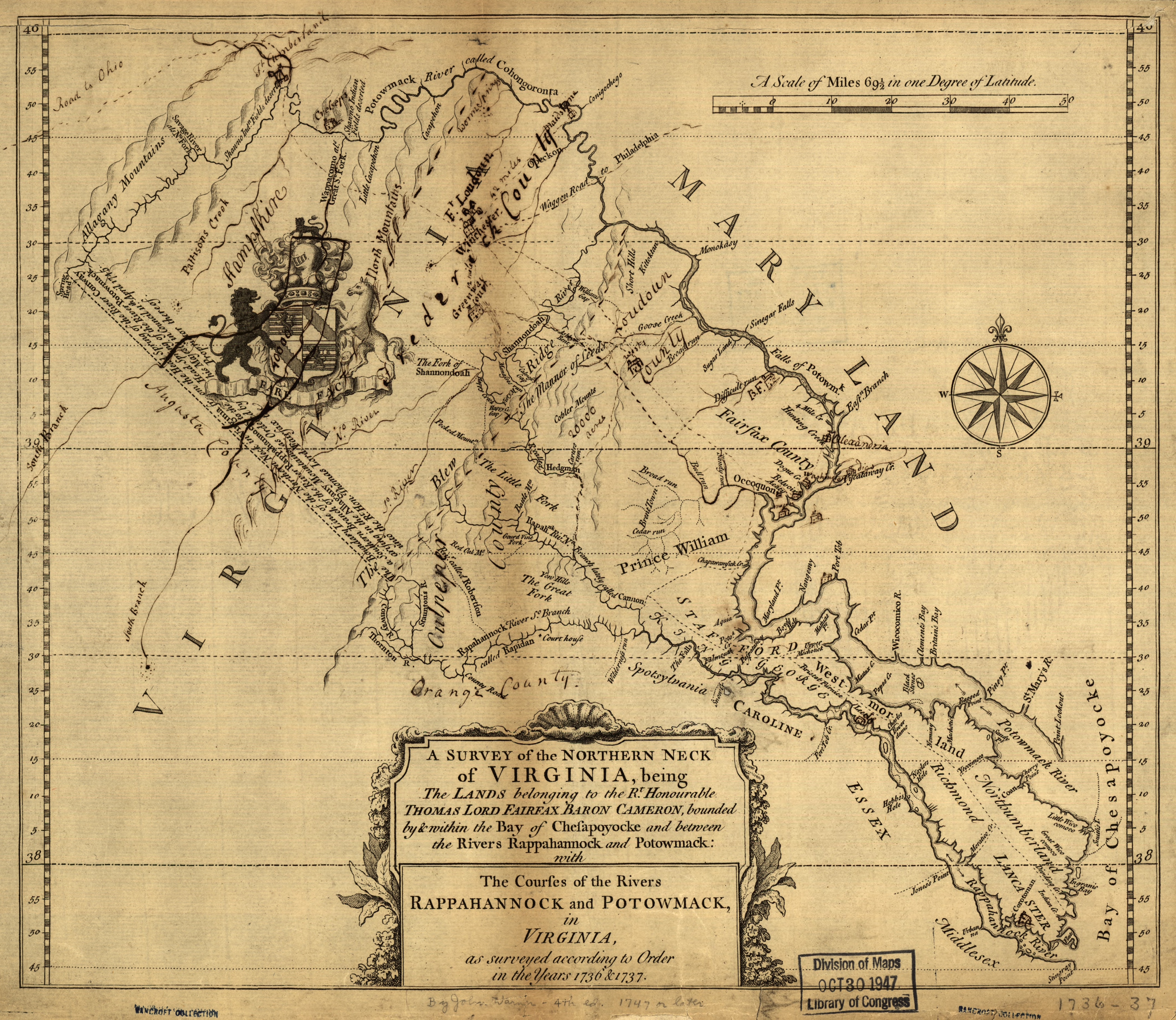 Map following surveys of 1736 and 1737 showing the Northern Neck Proprietary land in the Colony of Virginia.